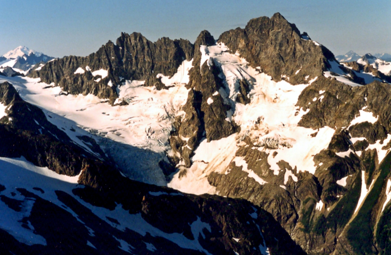 Mount Formidable seen from Magic Mountain summit on July 22, 1998. Annotation for Middle Cascade Glacier.